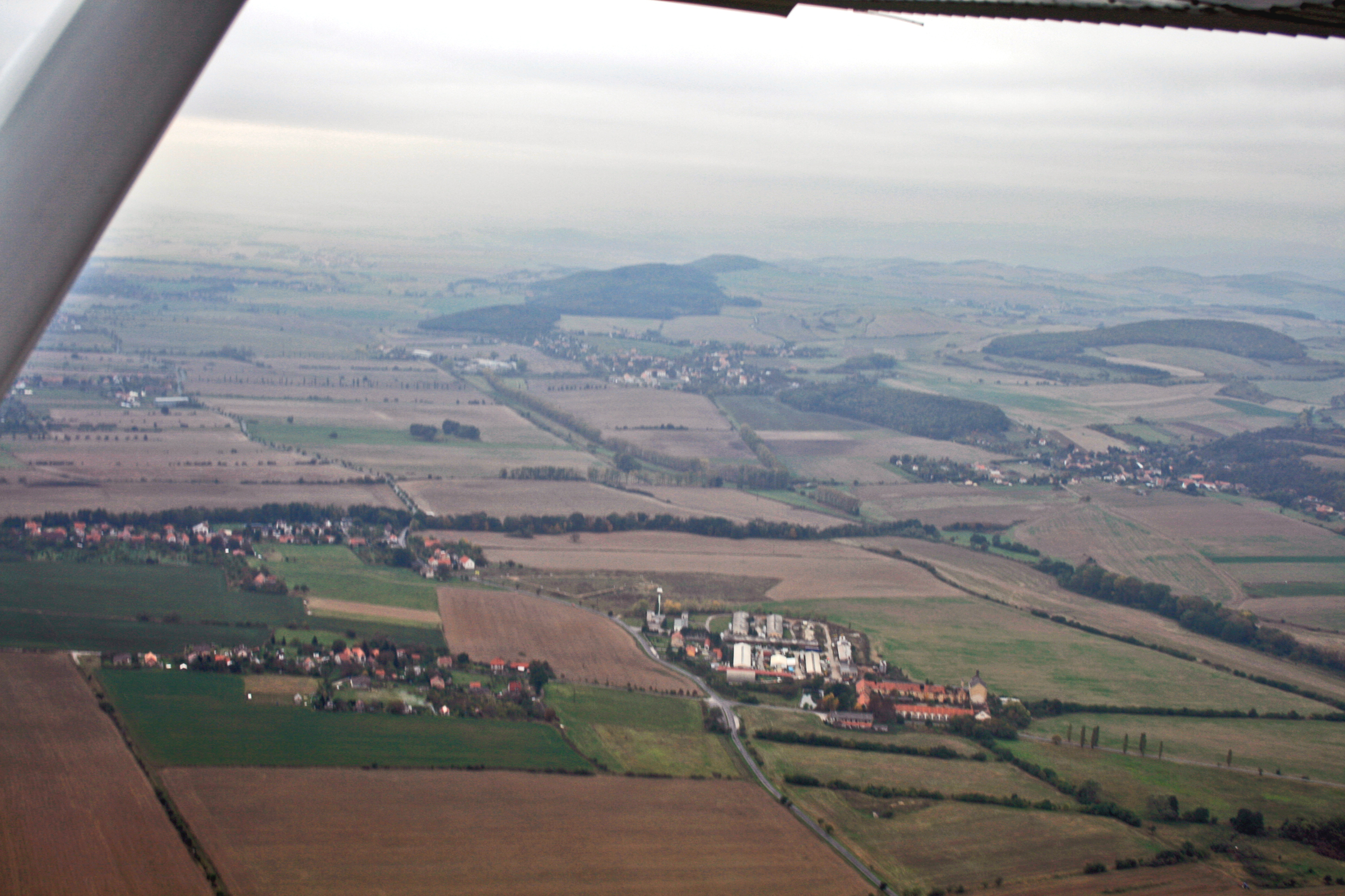 Air photo of Skuhrov, small village in central Bohemia, Czech Republic